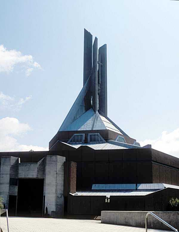 Clifton Cathedral in Clifton, Bristol. This is the view from Worcester Road on the north side of the Cathedral. Photograph taken by Rob Brewer on 23 July 2004. thumb|left|click for a detailed view of the western side of the spire